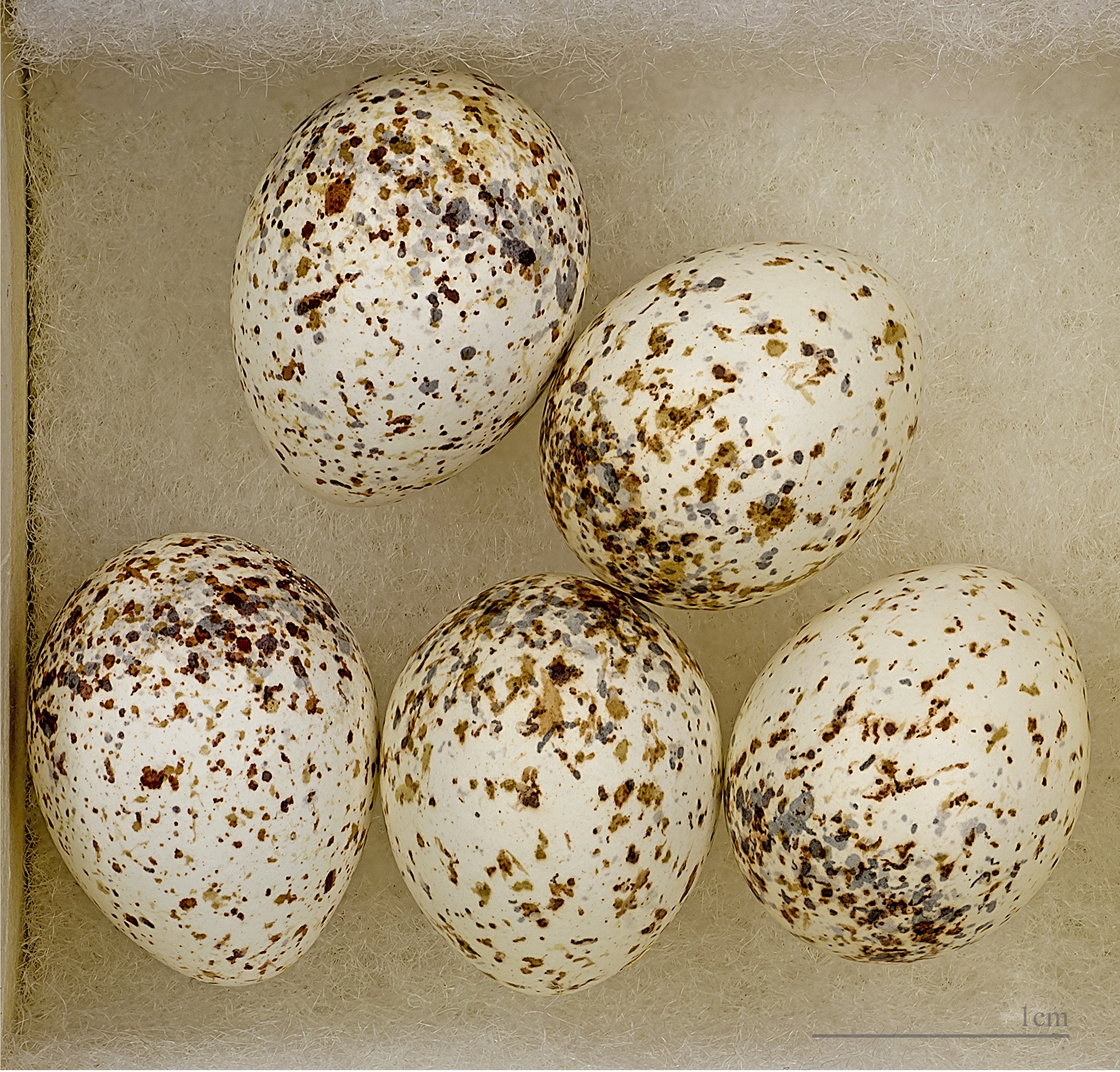 Egg of Western Subalpine Warbler (Sylvia inornata, syn. S. cantillans inornata). Collection of Jacques Perrin de Brichambaut.